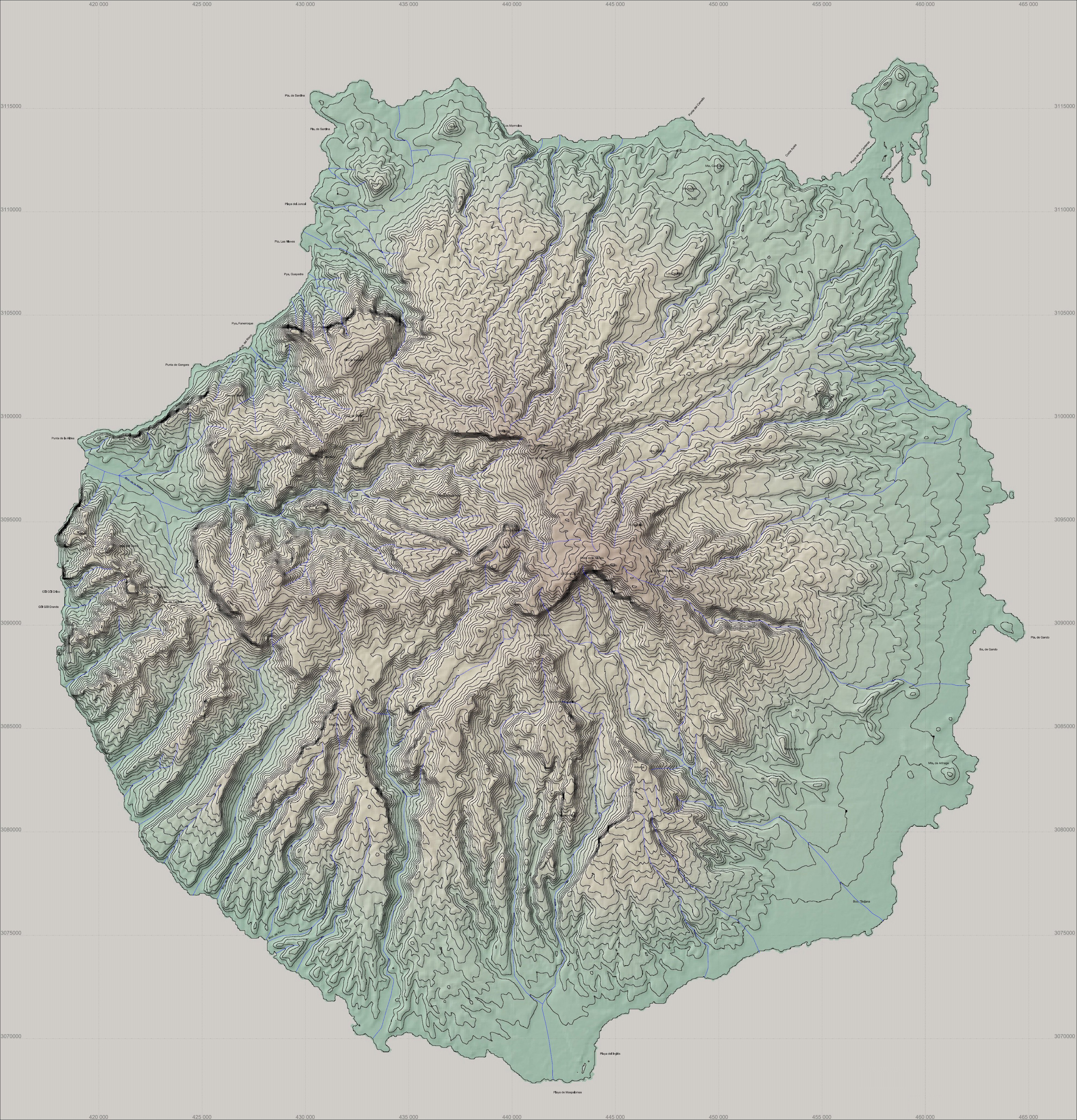 Topographic map of the Gran Canaria Island (Canary Islands) Spain. Scale 1:50.000. Cropped and without watermark. Data of origin: Shuttle Radar Topography Mission [NASA]. 3 secs. of arc. Data of projection: UTM Map projection. WGS84 Ellipsoid. UTM zone 28N. Equidistance of curves: 50 m.